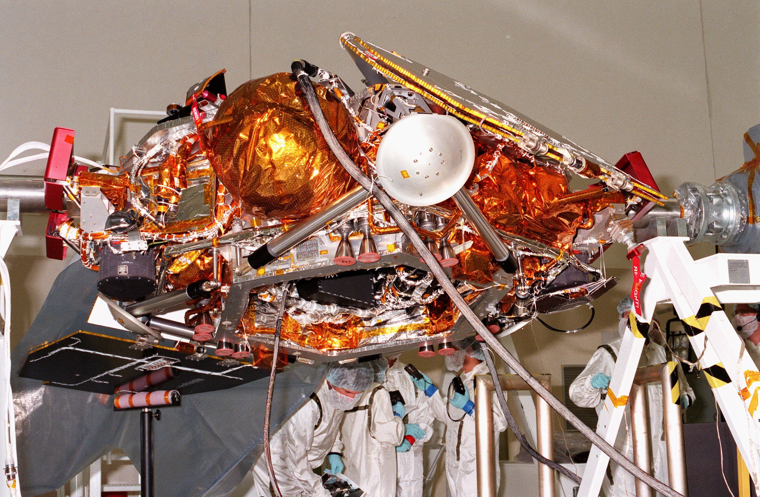 In the Spacecraft Assembly and Encapsulation Facility-2 (SAEF-2), the camera takes a close look at the Mars Polar Lander. The solar-powered spacecraft is targeted for launch from Cape Canaveral Air Station aboard a Delta II rocket on Jan. 3, 1999. It is designed to touch down on the Martian surface near the northern-most boundary of the south pole in order to study the water cycle there. The lander also will help scientists learn more about climate change and current resources on Mars, studying such things as frost, dust, water vapor and condensates in the Martian atmosphere.